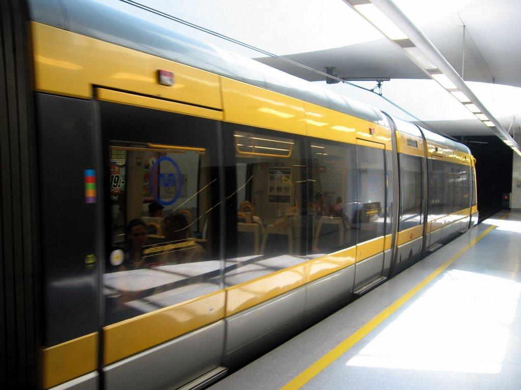 This is the station next to the famous Koolhaas building Casa da Música.